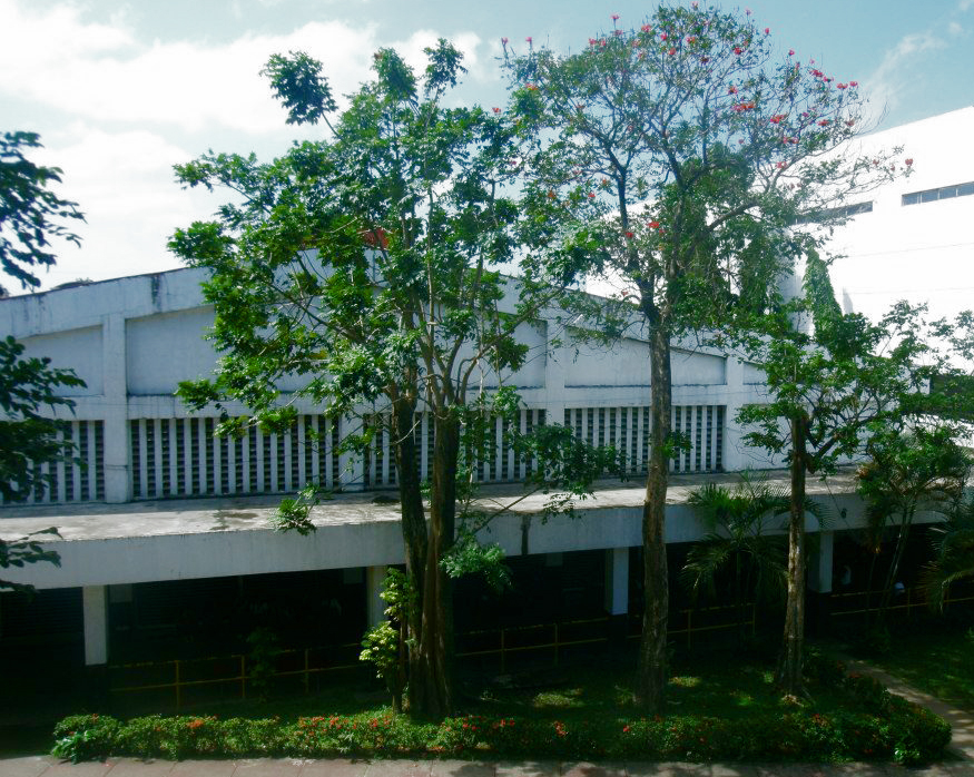 The Polytechnic University of the Philippines Santo Tomas Gymnasium.